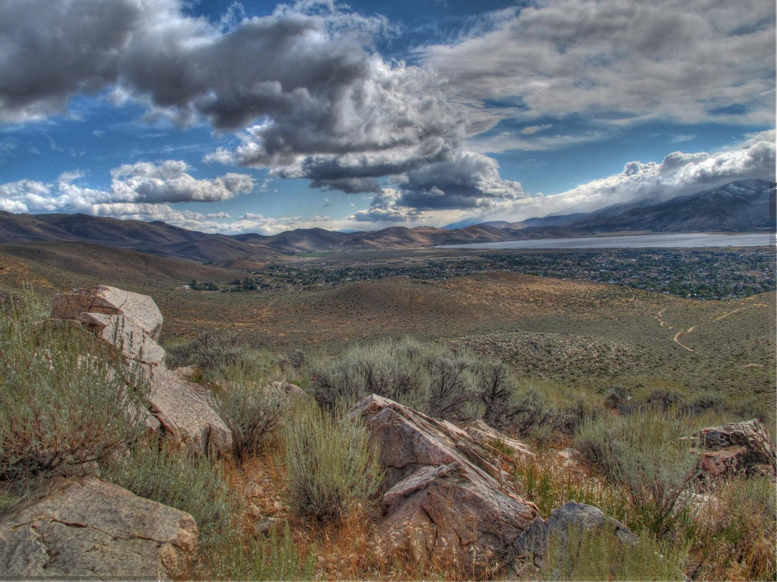 Washoe Lake & Valley during our first storm of the season.